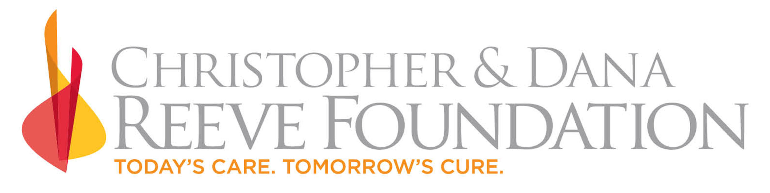 Logo for the Christopher & Dana Reeve Foundation as of September 2008.